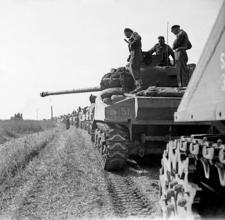 The 1st Polish Armoured Division in the Normandy Campaign 1944 Sherman tanks of 1st Polish Armoured Division at the start of Operation 'Totalise'.